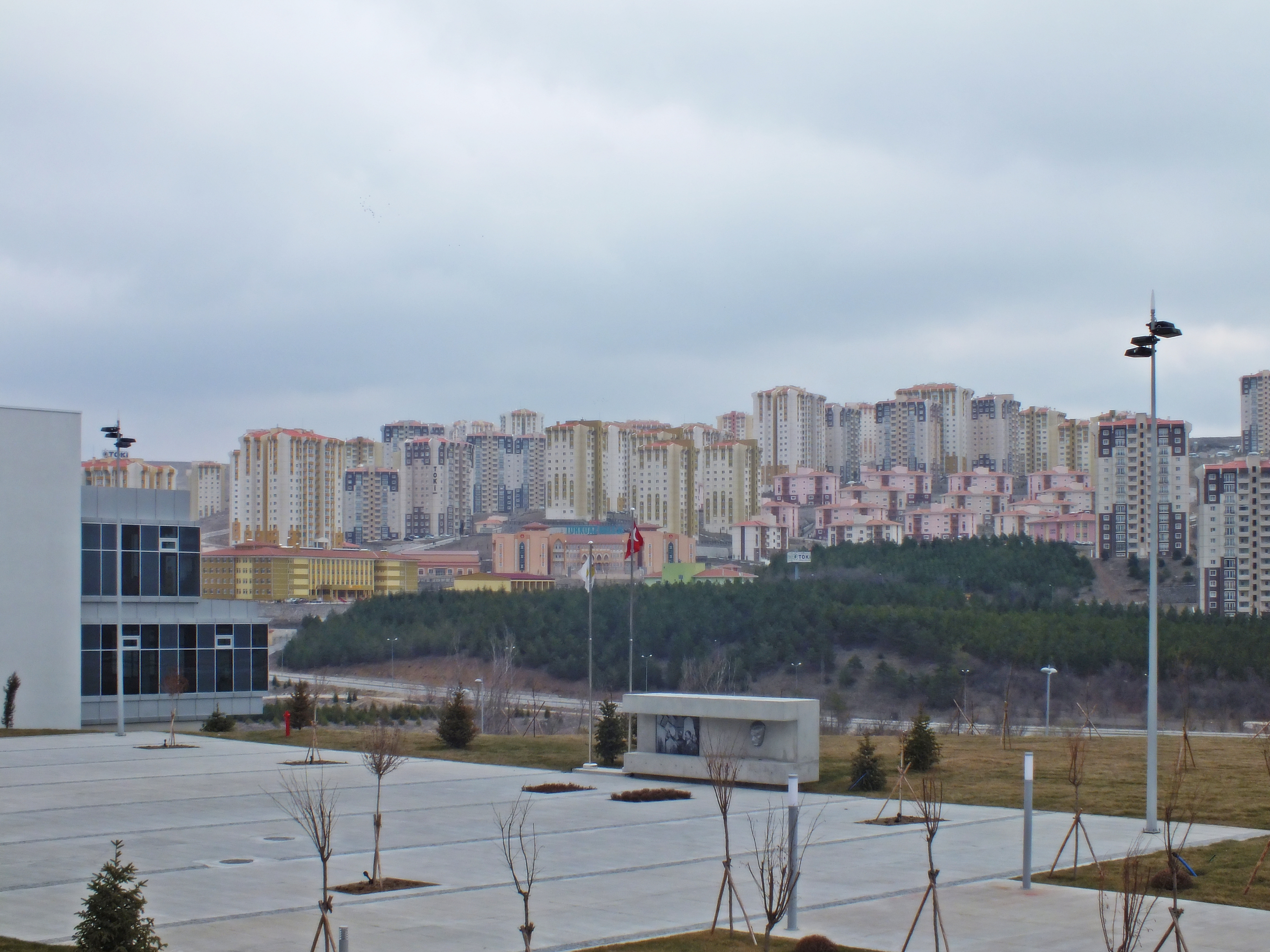 A view of Turkuaz Valley from Çankaya University Turkuaz campusTürkçe: Çankaya Üniversitesi Turkuaz Kampüsü'nden Turkuaz Vadisi'nin bir görünümü